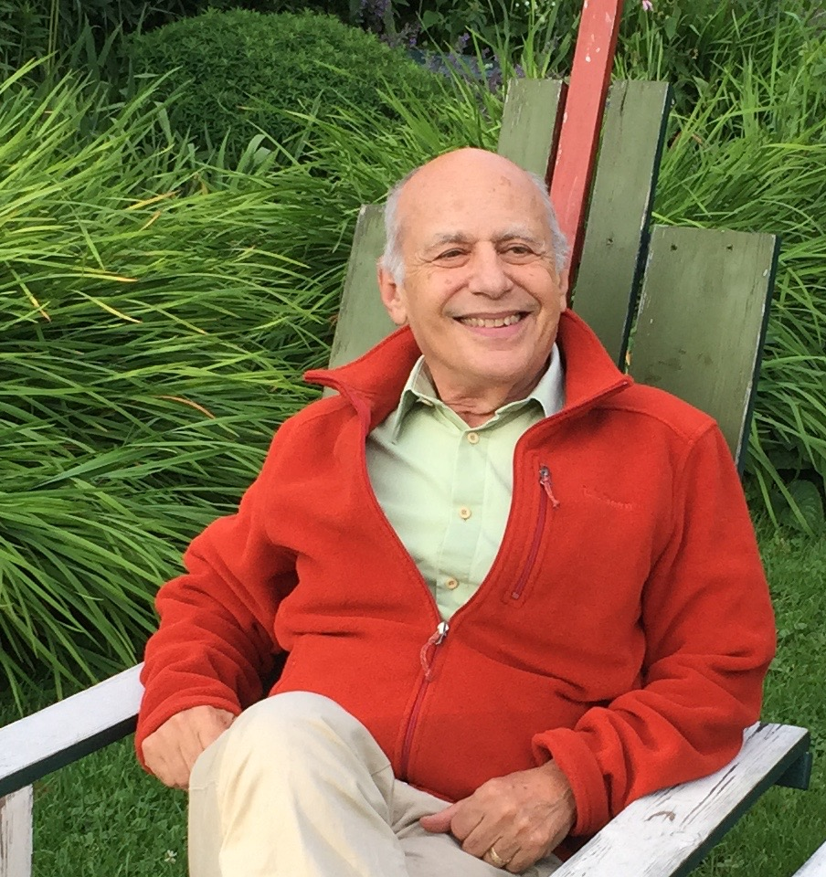 FrankFFurstenberg recent photo